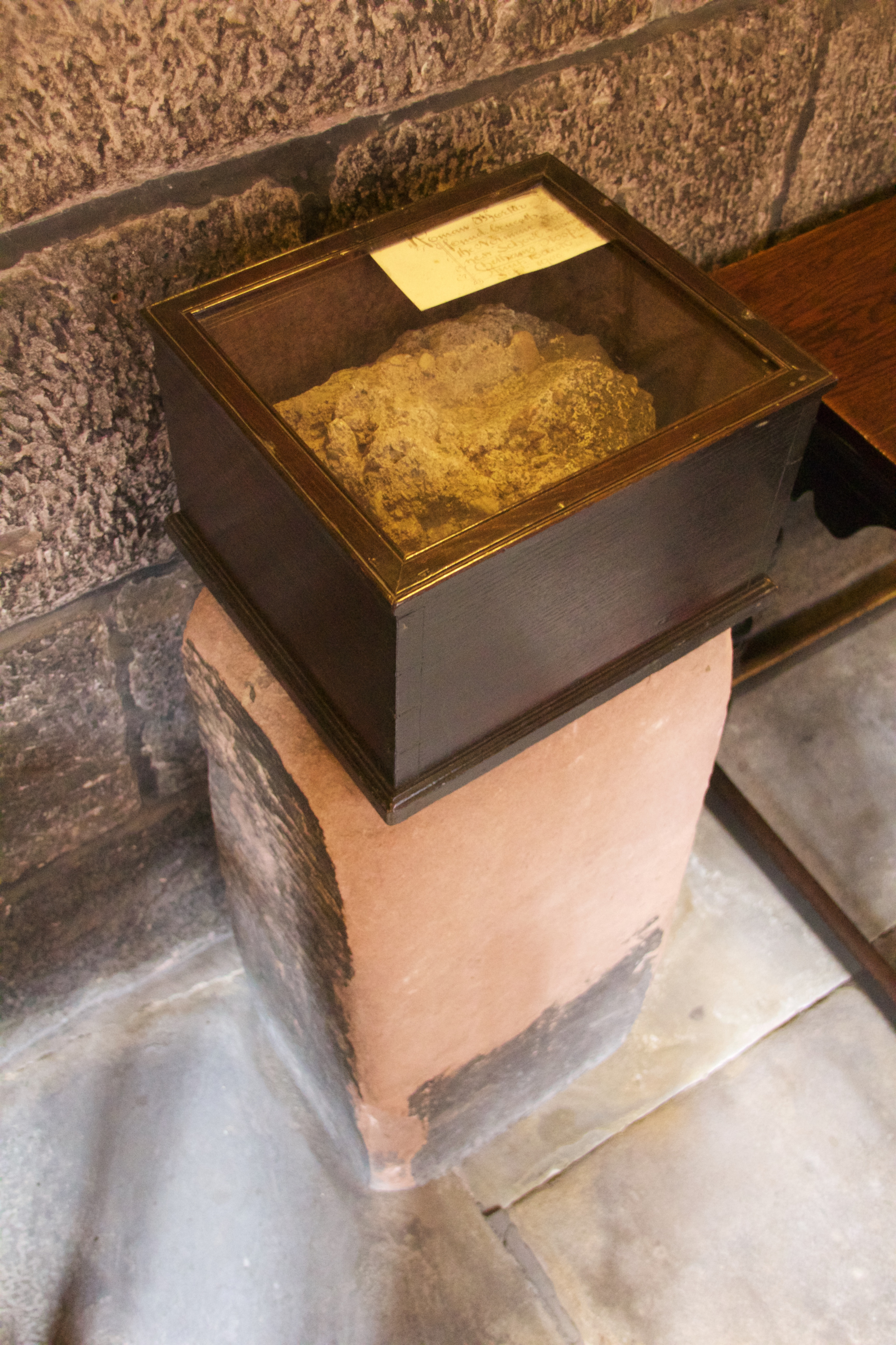 Roman mortar, found beneath the Norman (?) near School room, Chethams Hospital, Sept 1900. Chetham's Library, Manchester, United Kingdom